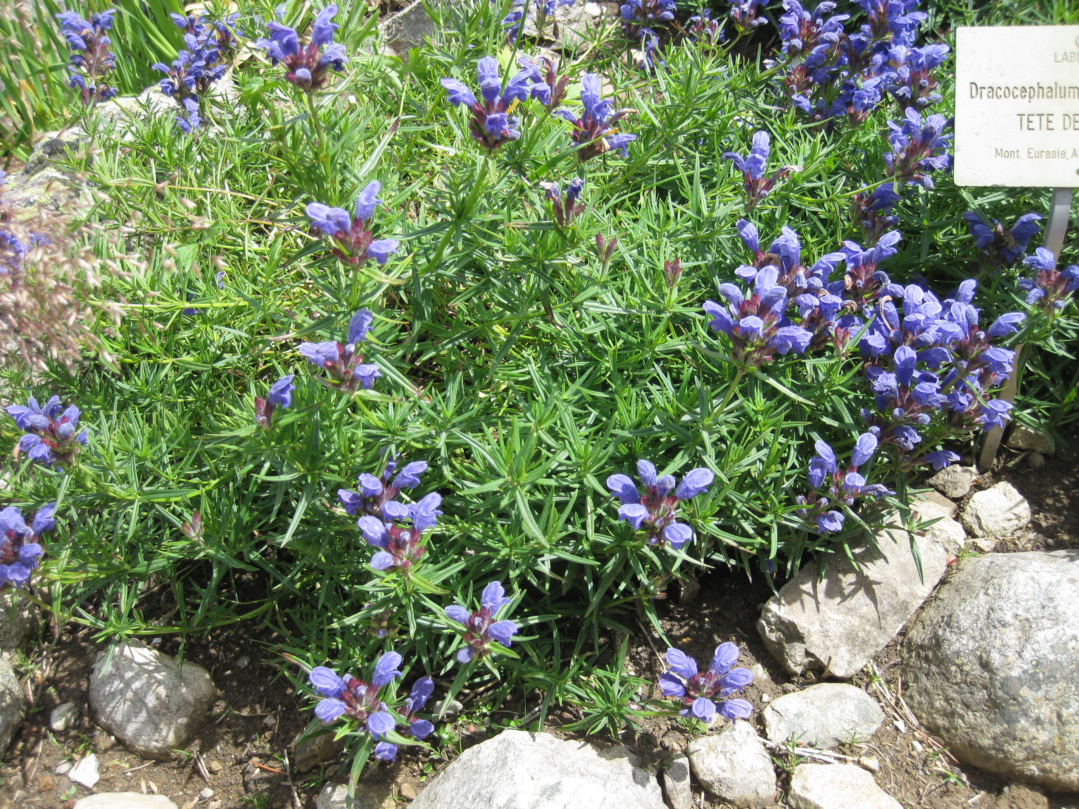 Dracocephalum ruyschiana in the Jardin Botanique Alpin du Lautaret